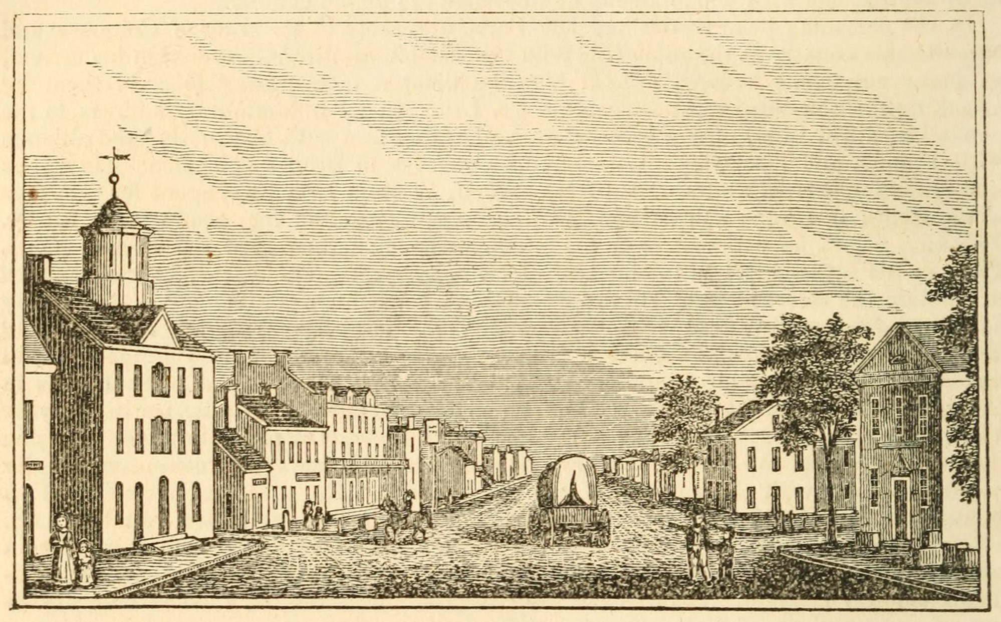 "View in Wytheville", an engraving from Henry Howe's Historical Collections of Virginia (1845)